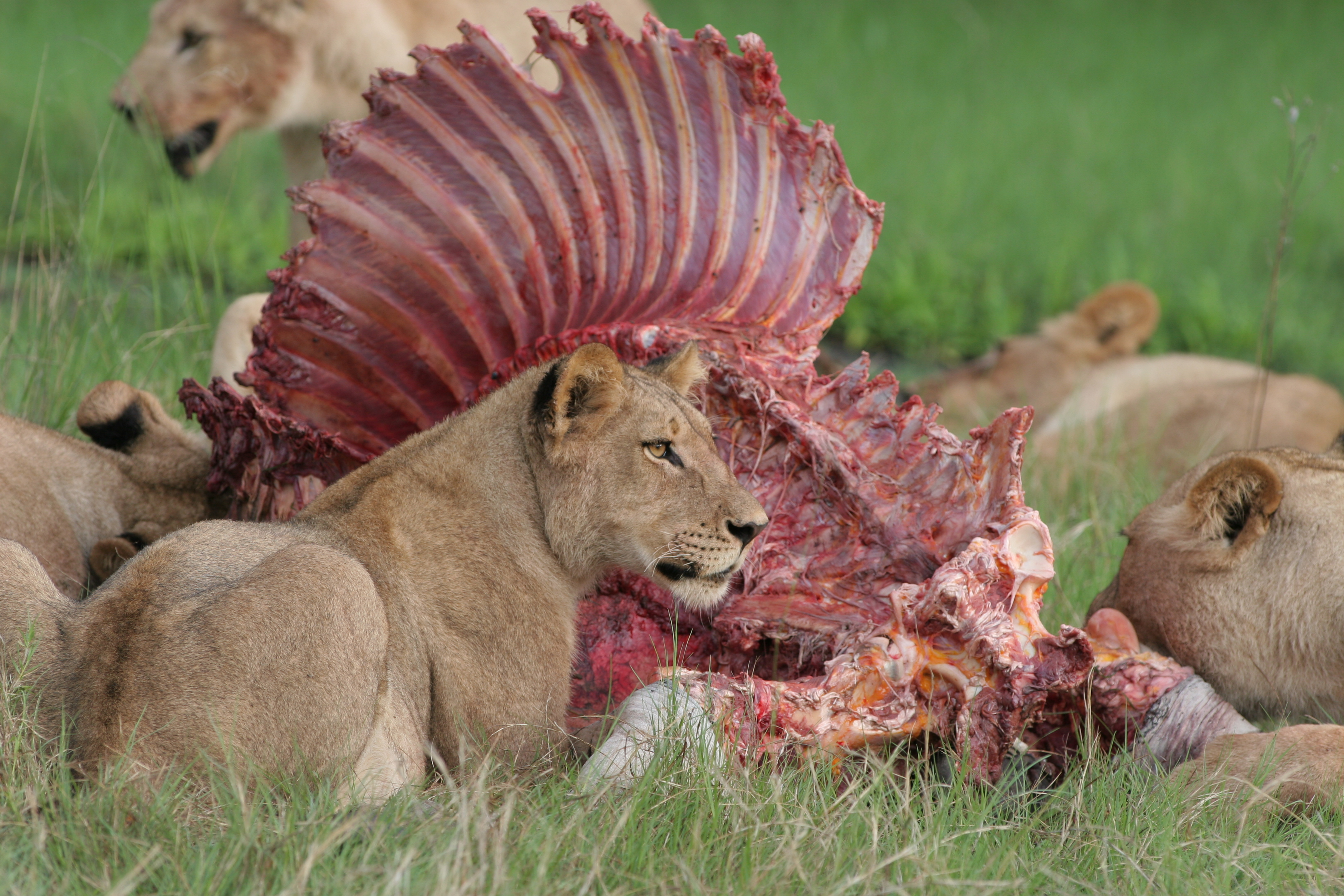 Lions and a Zebra